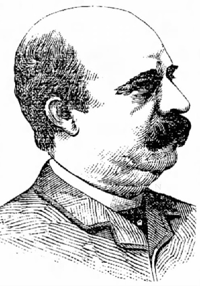 Jacob A. Geissenhainer (New Jersey Congressman)